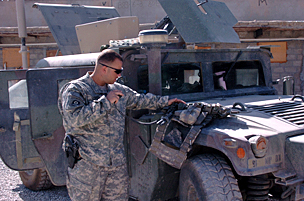 Preparing gear prior to a patrol at Towr Kham Fire Base, Afghanistan.